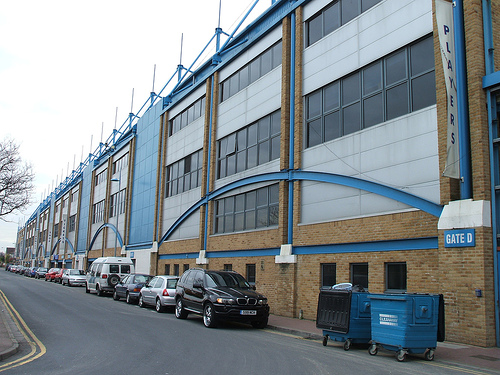 The outside of the Medway Stand at Priestfield Stadium, Gillingham, photo taken by and copyright Keith J. Last.